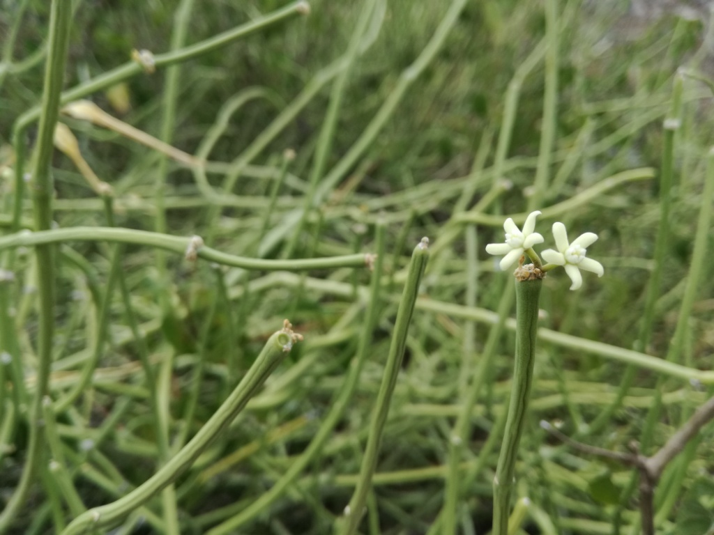 Cynanchum guehoi - Anse Quitor